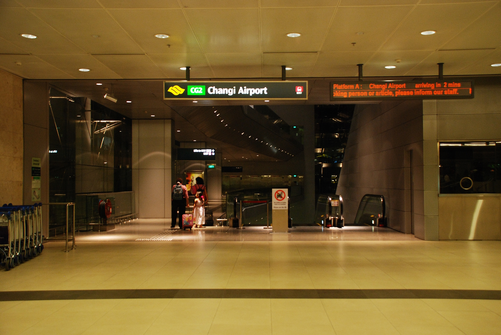 The Changi Airport Terminal 2 Arrival Hall exit of Changi Airport MRT Station, Singapore.